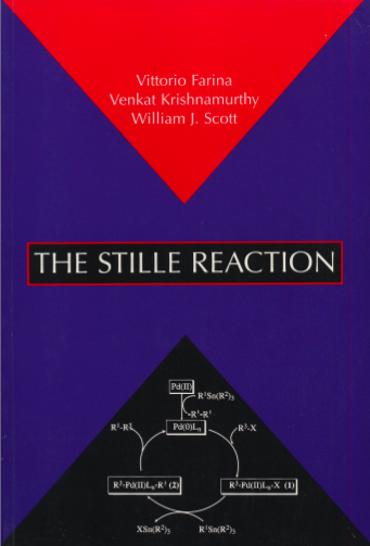 Some chapters of Organic Reactions are made into dedicated books. This example, by Farina et al., covers the Stille reaction.